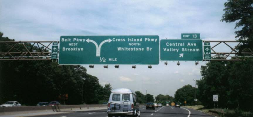 Southern State Parkway westbound at Exit 13 in North Valley Stream, New York.